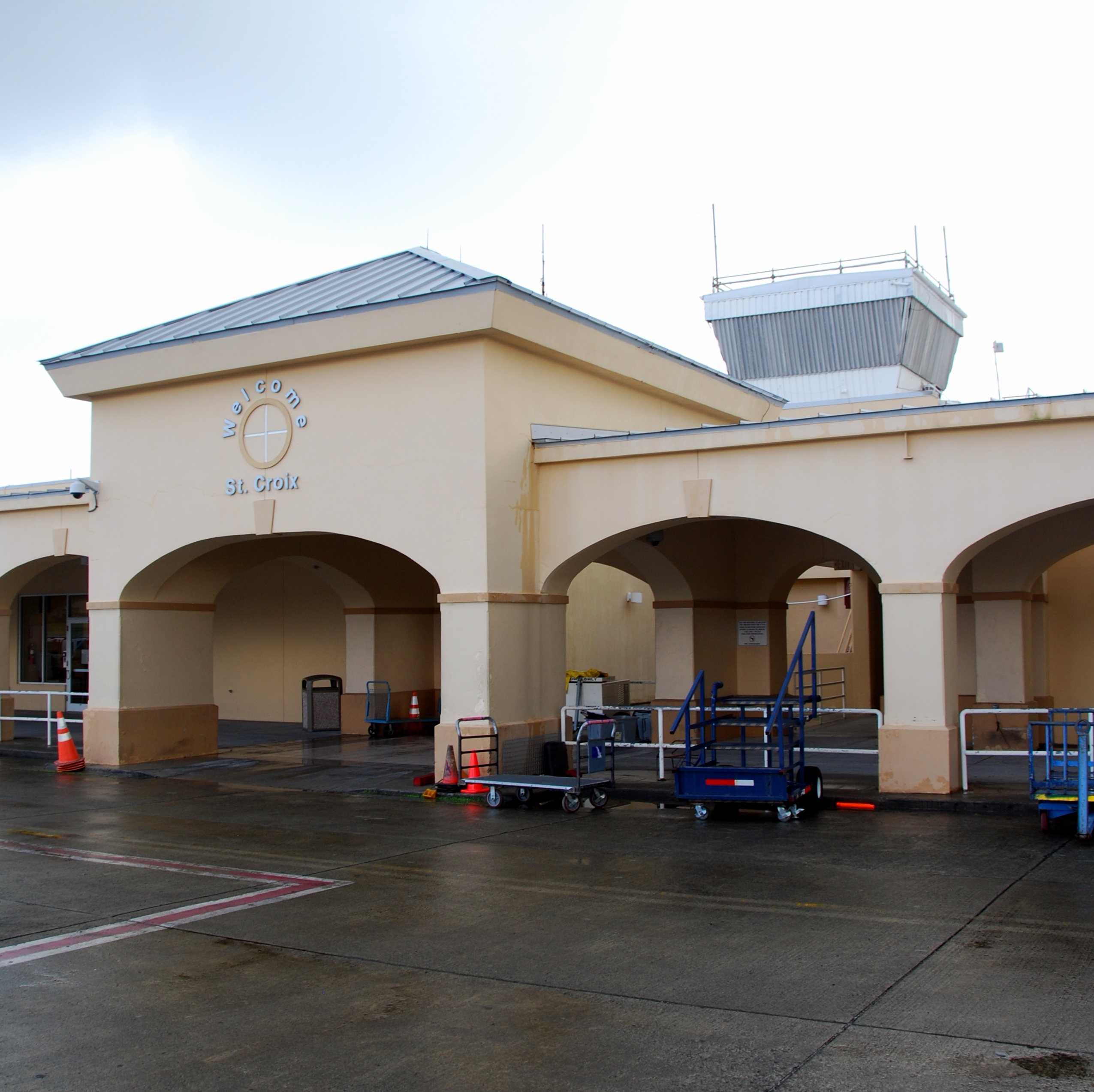 Check-in at Henry E. Rohlsen Airport tower and arrival, St. Croix, USVI.